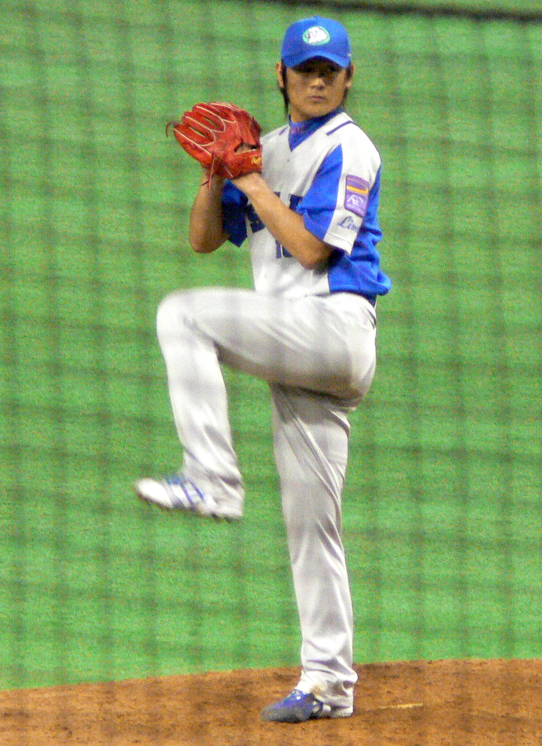 Hideaki Wakui of the Seibu Lions pitches against the MLB All-Star team in Game 2 of the Major League Baseball Japan All-Star Series at Tokyo Dome on November 4, 2006.